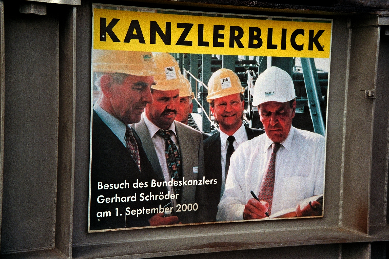 Kanzlerblick on the Overburden Conveyor Bridge F60 in Lichterfeld-Schacksdorf, distrikt Elbe-Elster, Brandenburg, Germany.